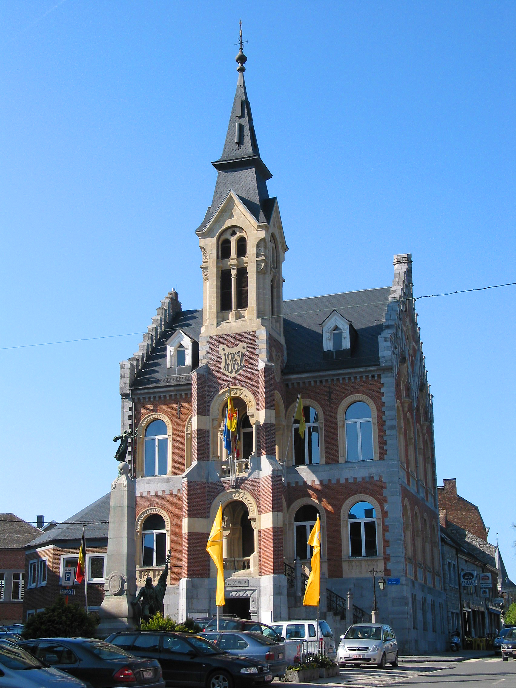 Rochefort (Belgium), the town hall (1862).